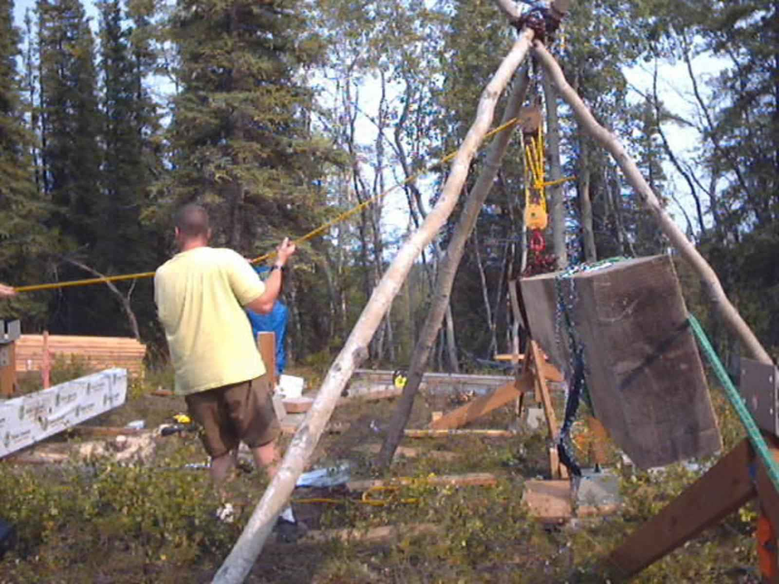 Image title: Building a cabin in forest Image from Public domain images website